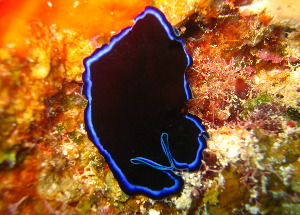 The flatworm Pseudoceros sapphirinus. Lighthouse, Ribbon Reefs, Great Barrier Reef.